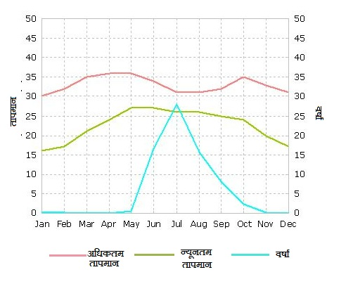 This is month wise variation of minimum and maximum temperature and rainfall of Silvassa 𐌲𐌿𐍄𐌹𐍃𐌺: यह सिलवासा के न्यूनतम और अधिकतम तापमान और बारिश का ग्राफ है।